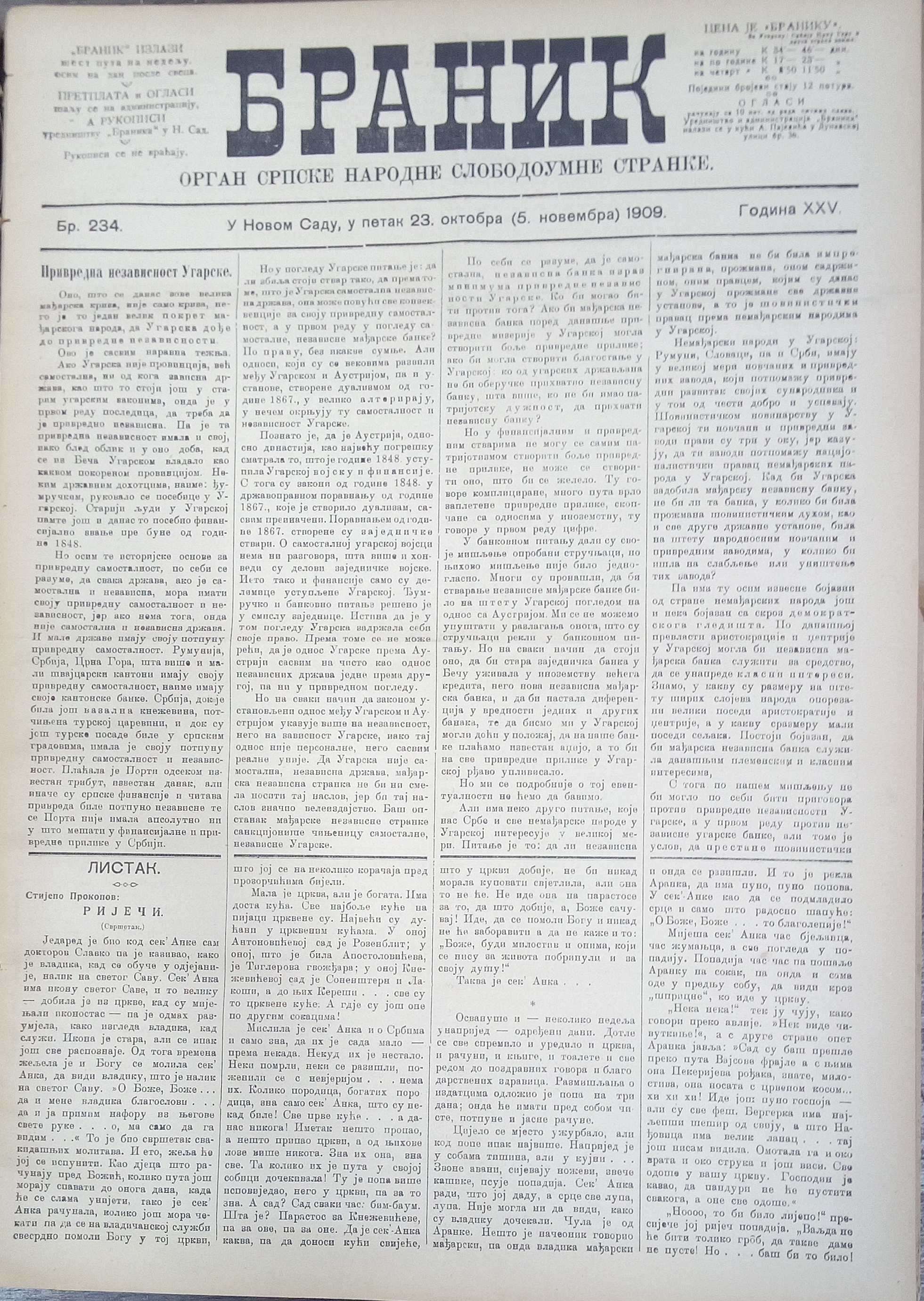 Front page of newspaper "Branik" from 23 October (5 November) 1909 Srpski (latinica): Naslovna strana lista "Branik" od 23. oktobra (5. novembra) 1909.